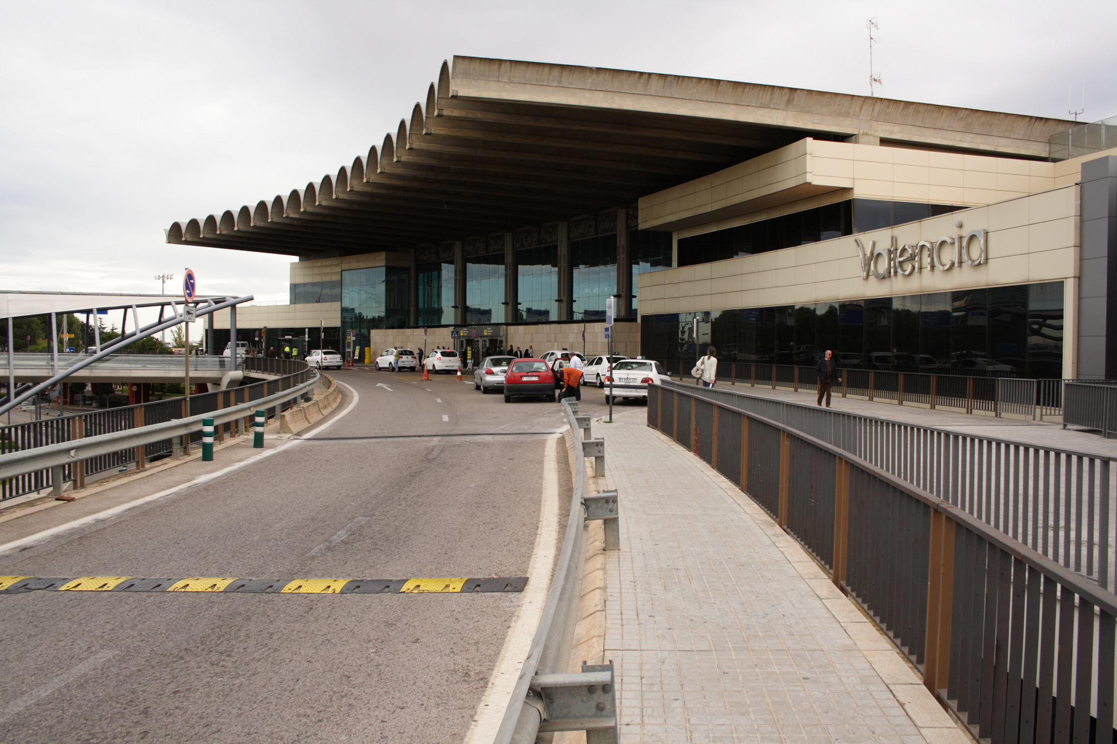 This image shows the terminal of the airport in Valencia, Spain.